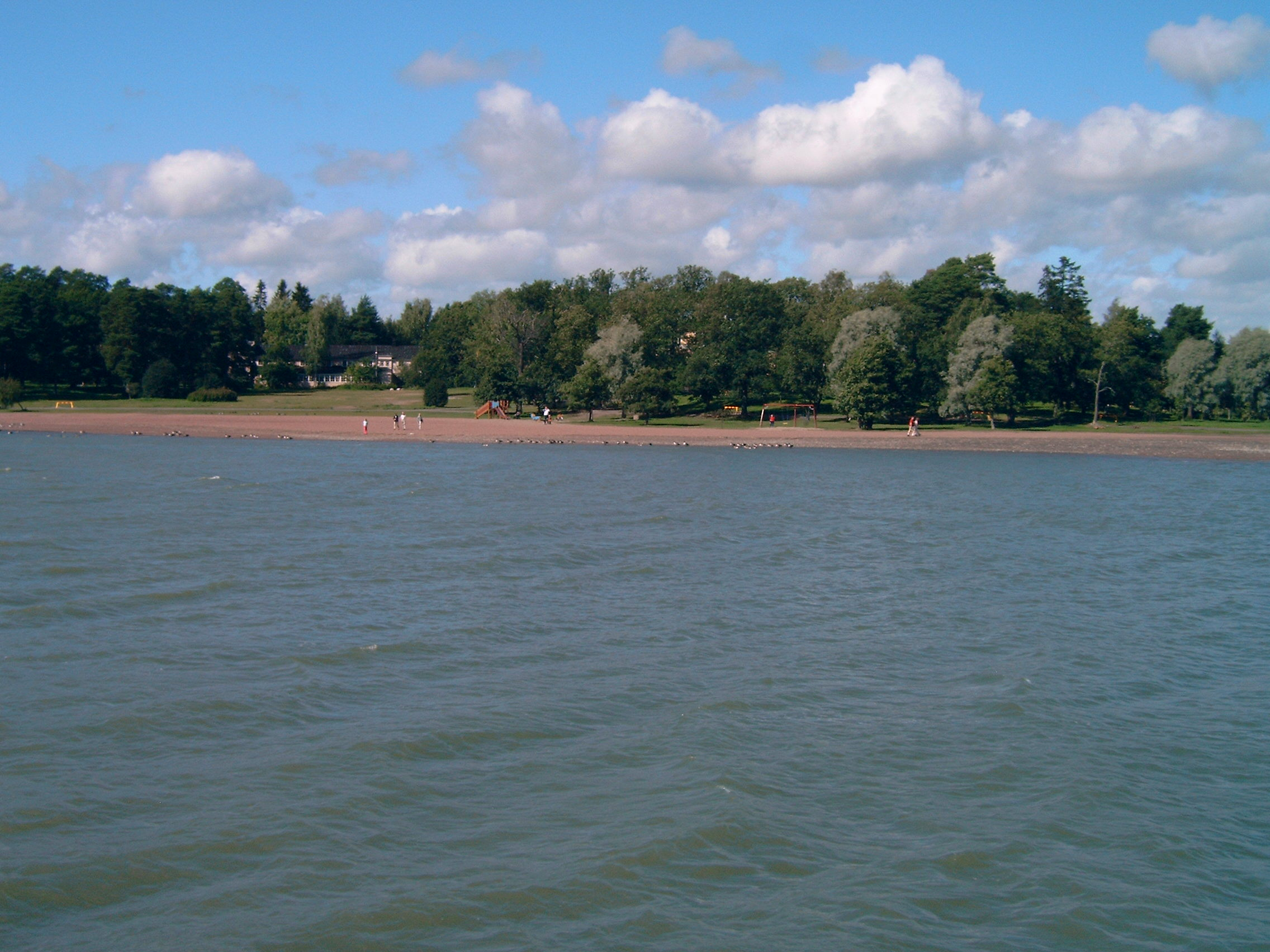 Ruissalo from south